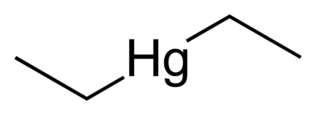 Skeletal formula of the diethylmercury molecule, Hg(C2H5)2.